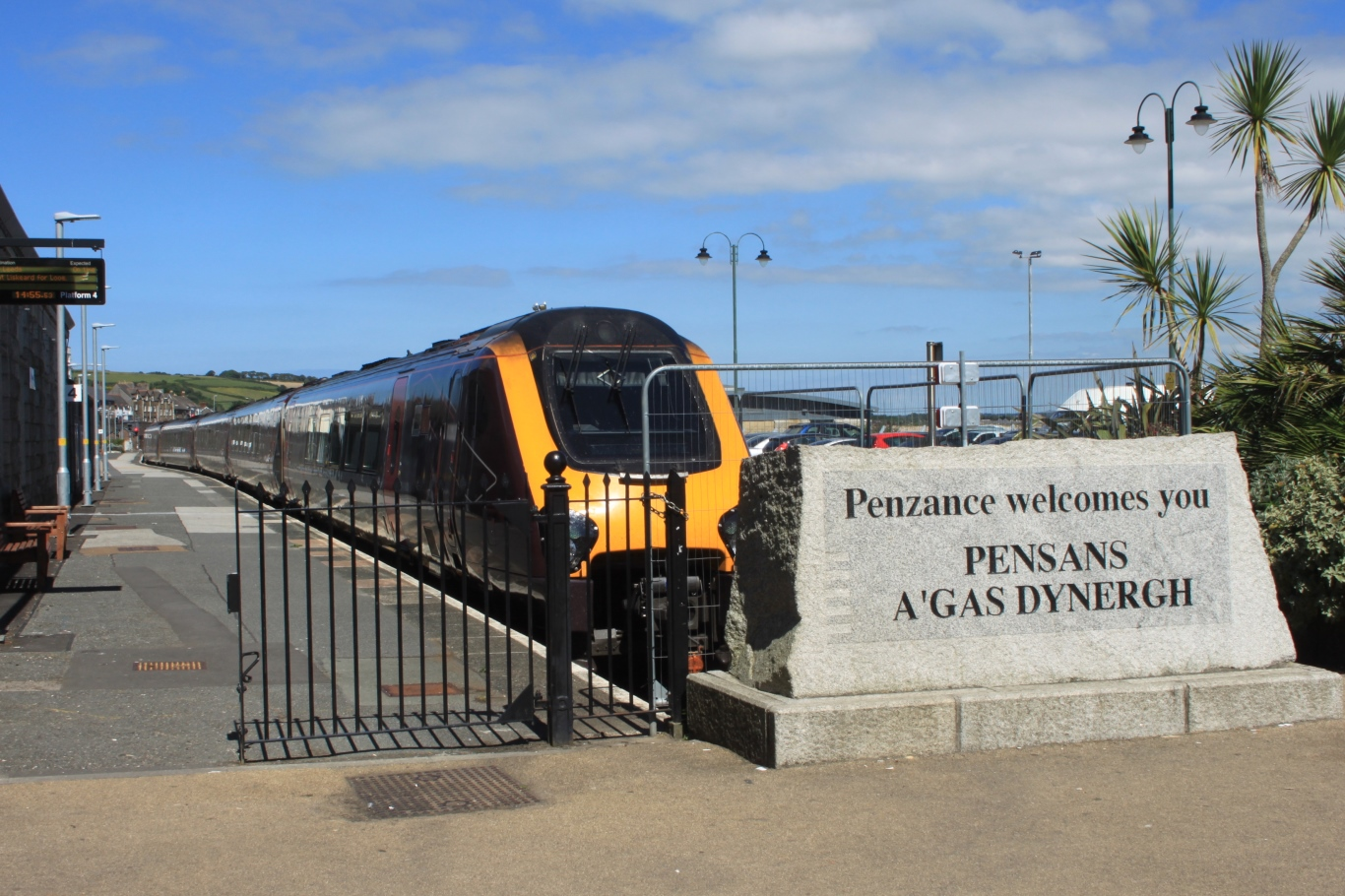 Welcome to Penzance! CrossCountry 'Voyager' 221130 has reached the end of the line in Cornwall.